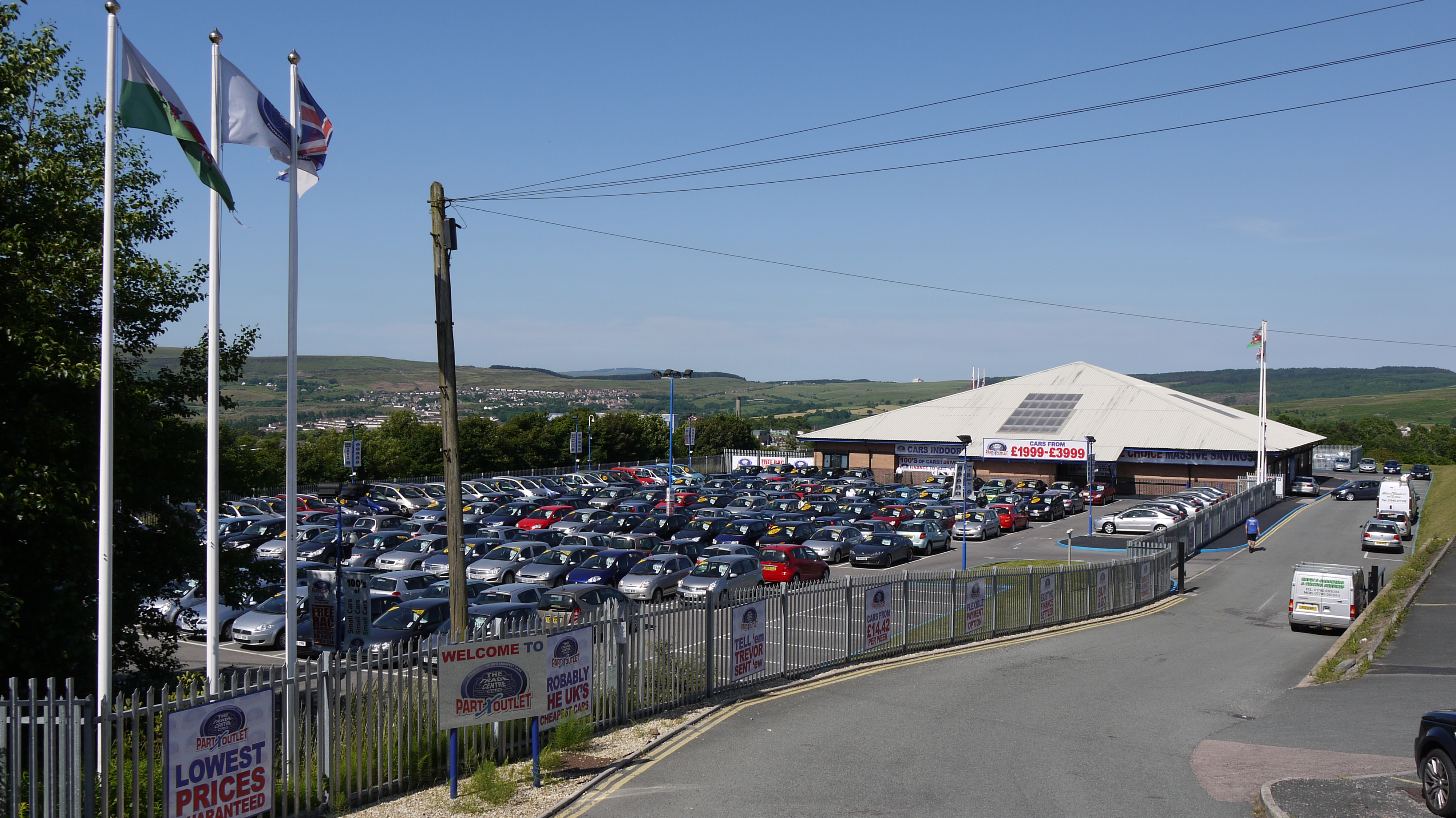 The Trade Centre Wales Part Exchange Outlet Merthyr